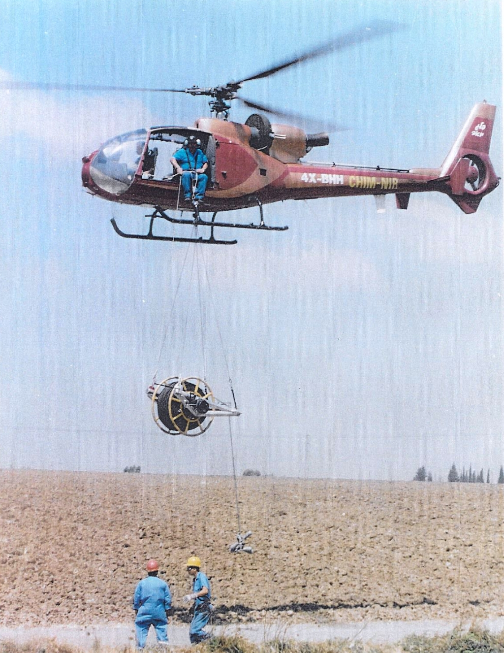 4X-BHH, Aerospatiale SA342L Gazelle, of Chim-Avir Aviation